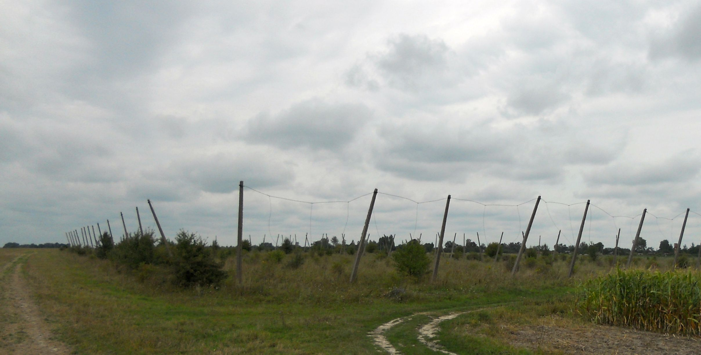 Hop field, Nyzhni Holovli, Ukraine